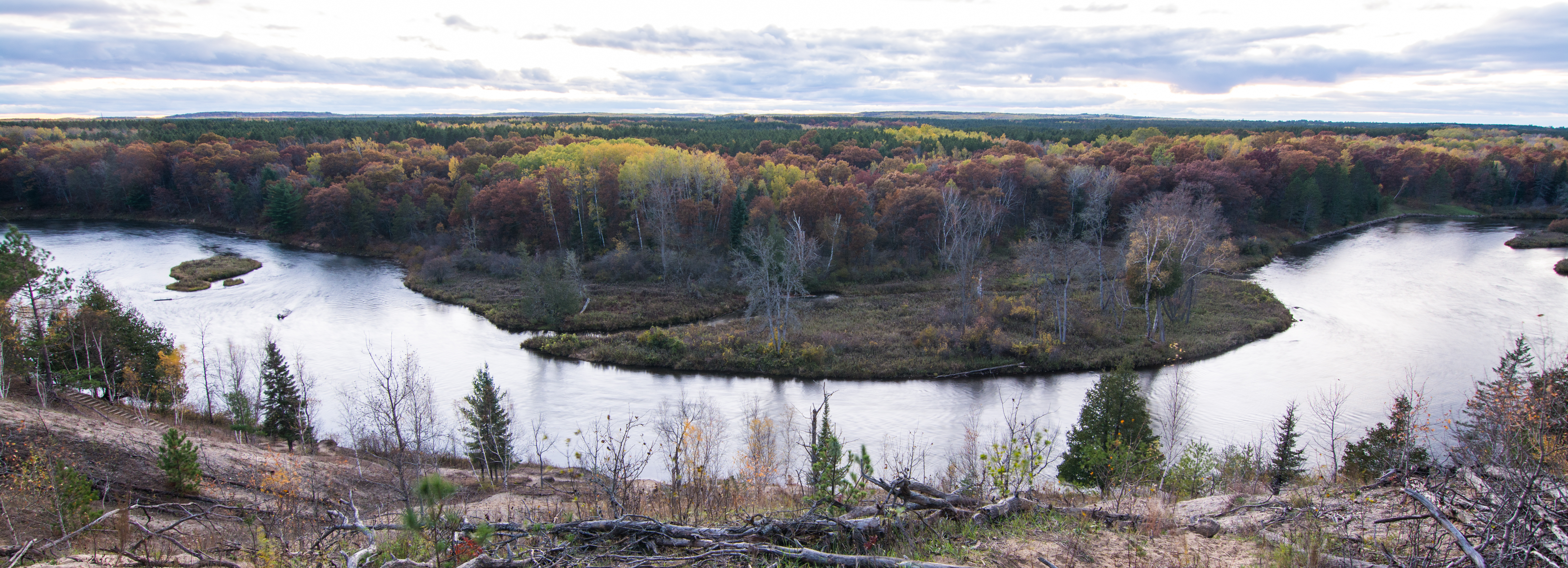 Au Sable High Banks Overlook